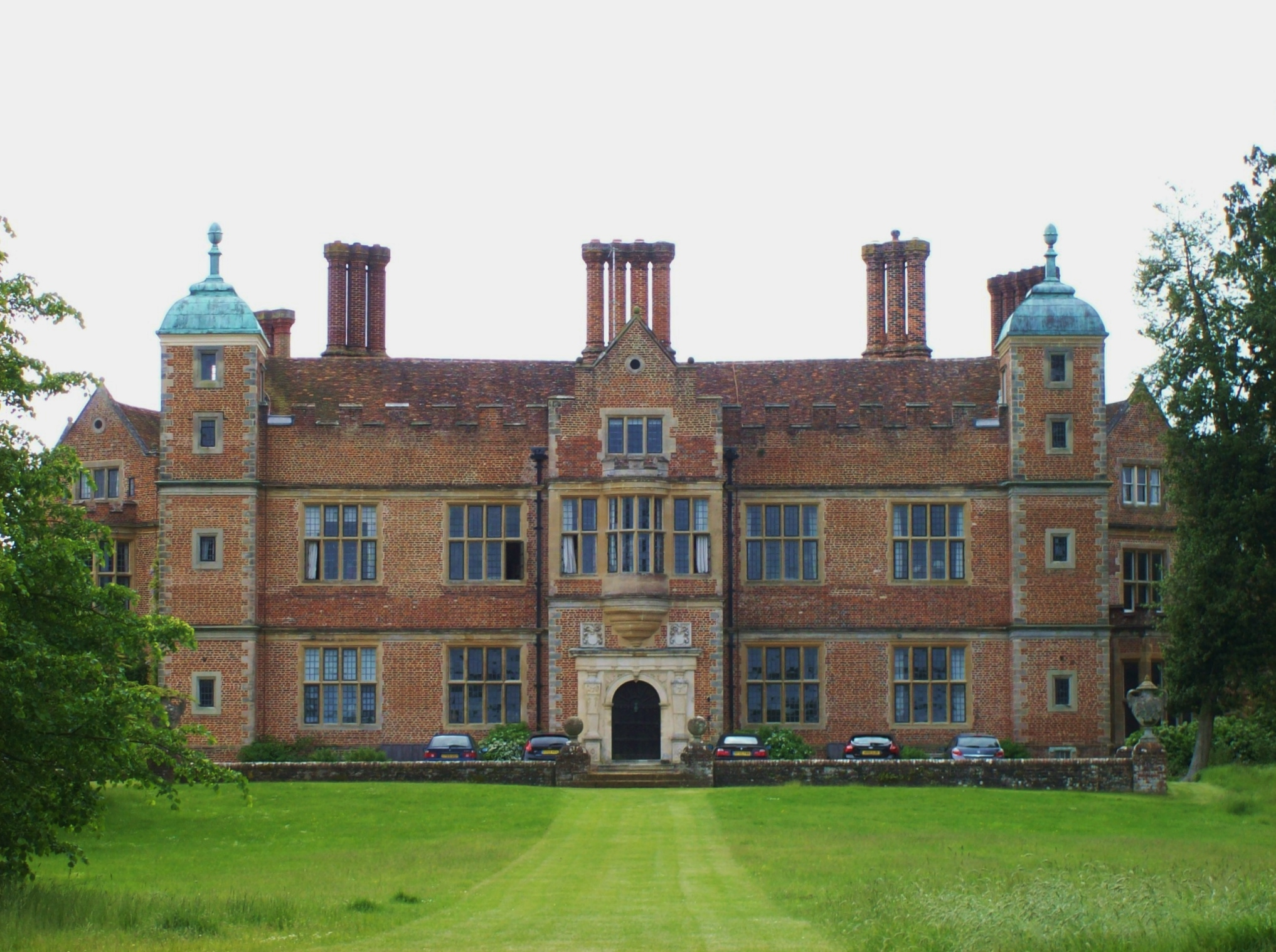 Chilham Castle, north front